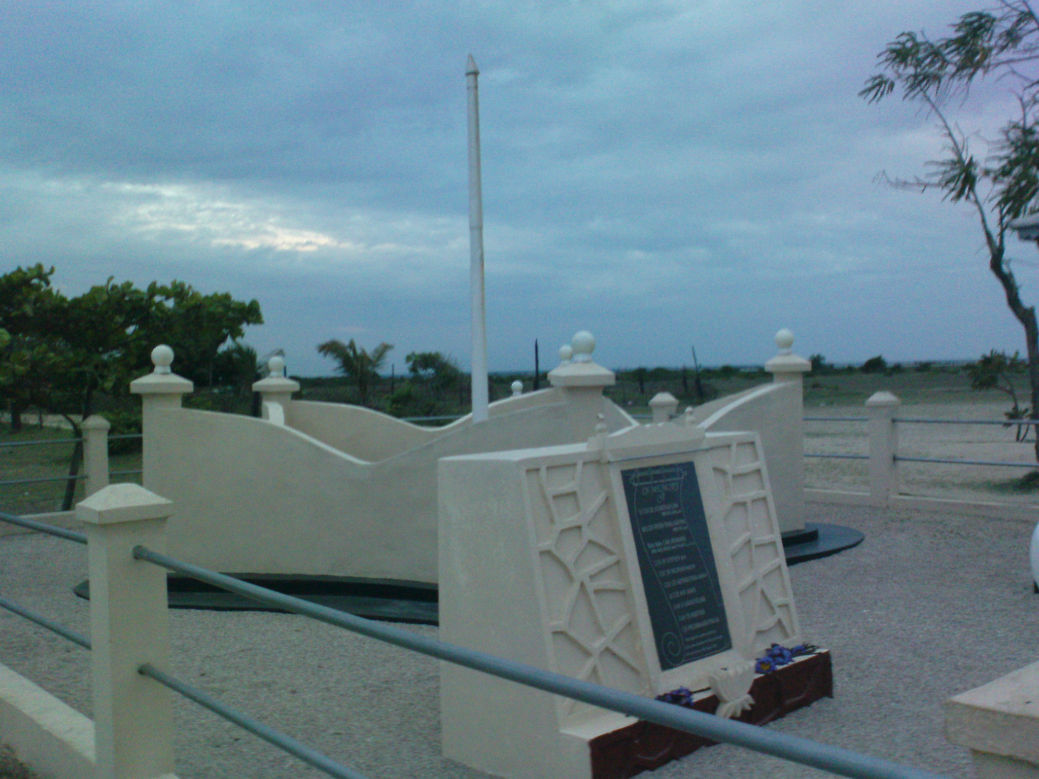 Lieutenant General Denzil Kobbekaduwa Memorial සිංහල: ලුතිනන් ජෙනරල් ඩෙන්සිල් කොබ්බෑකඩුව ස්මාරකය